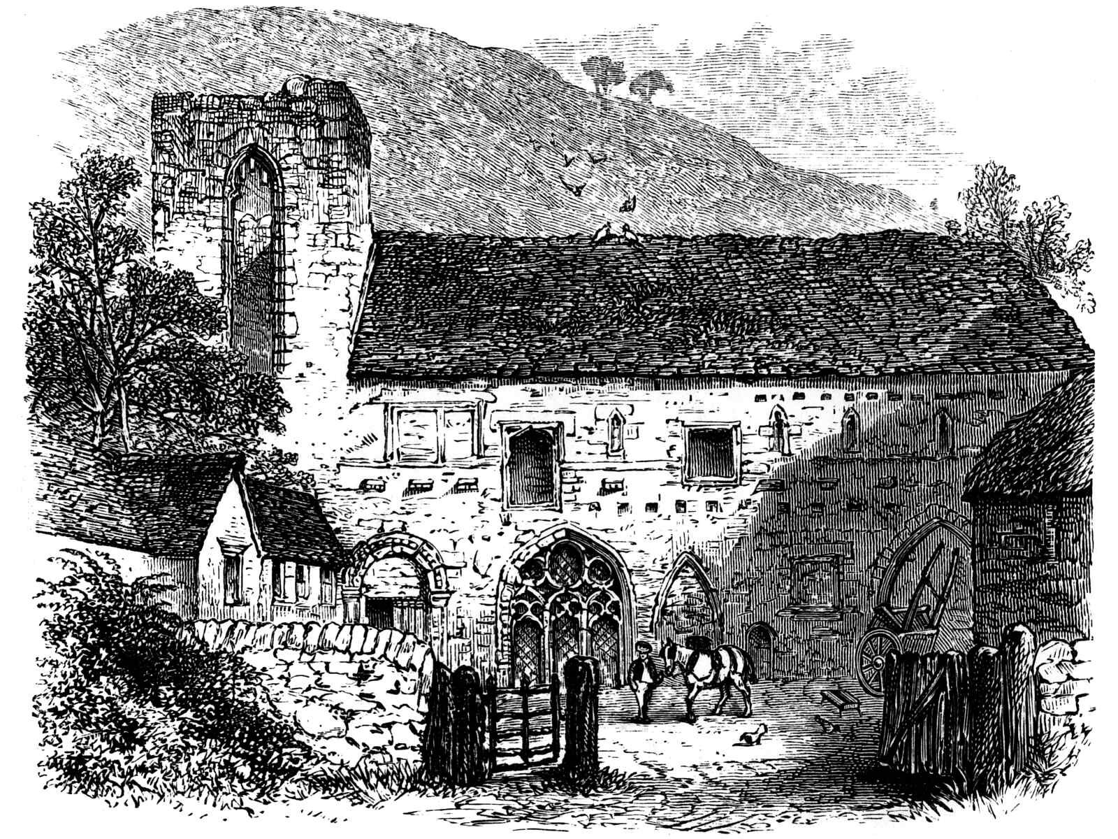 etching of Valle Crucis Abbey from the book The River Dee: Its Aspect and History by J. S. Howson